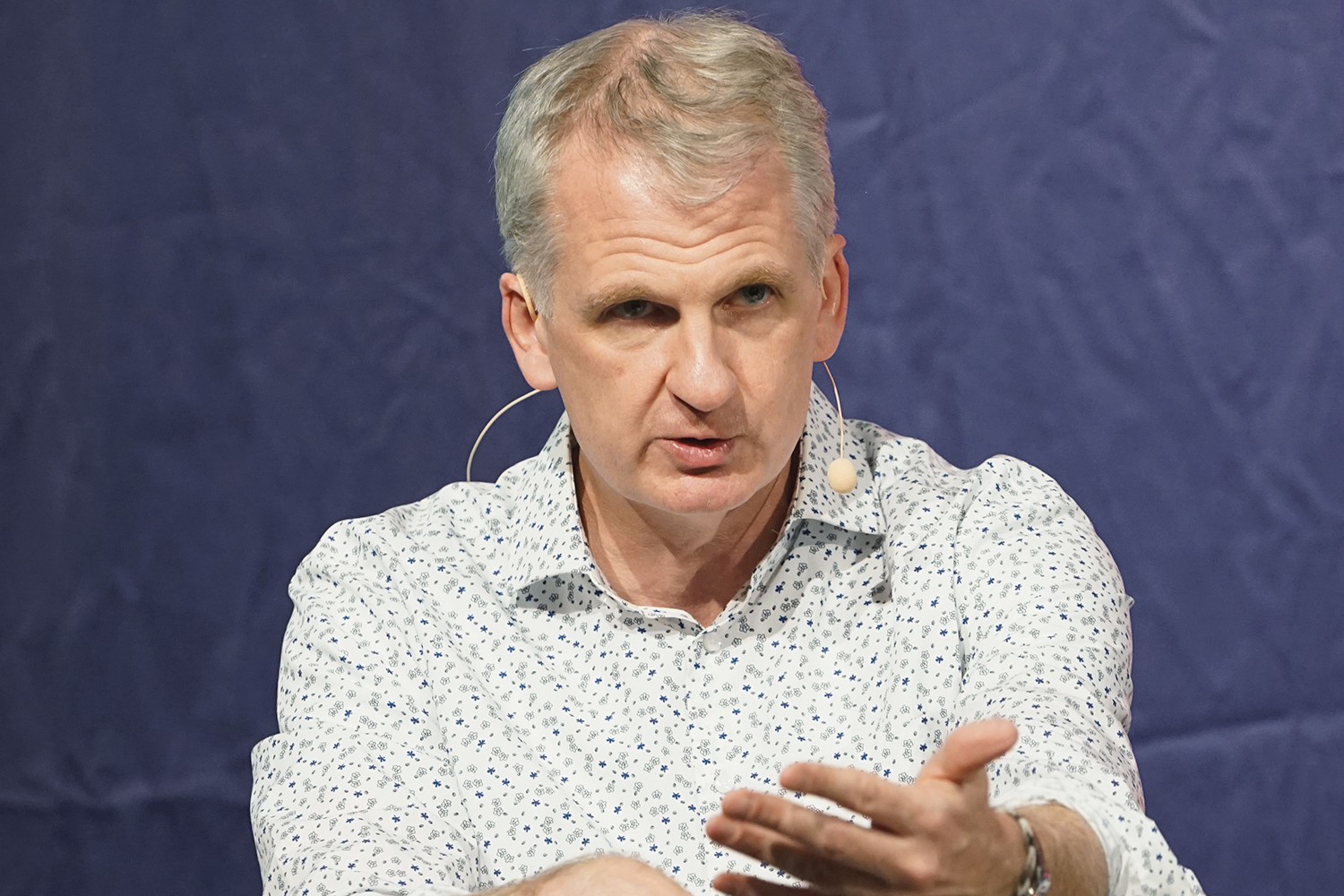 Timothy Snyder - historian and writer from USA - at the historic event "Historiske Dage 2019", Copenhagen, Denmark